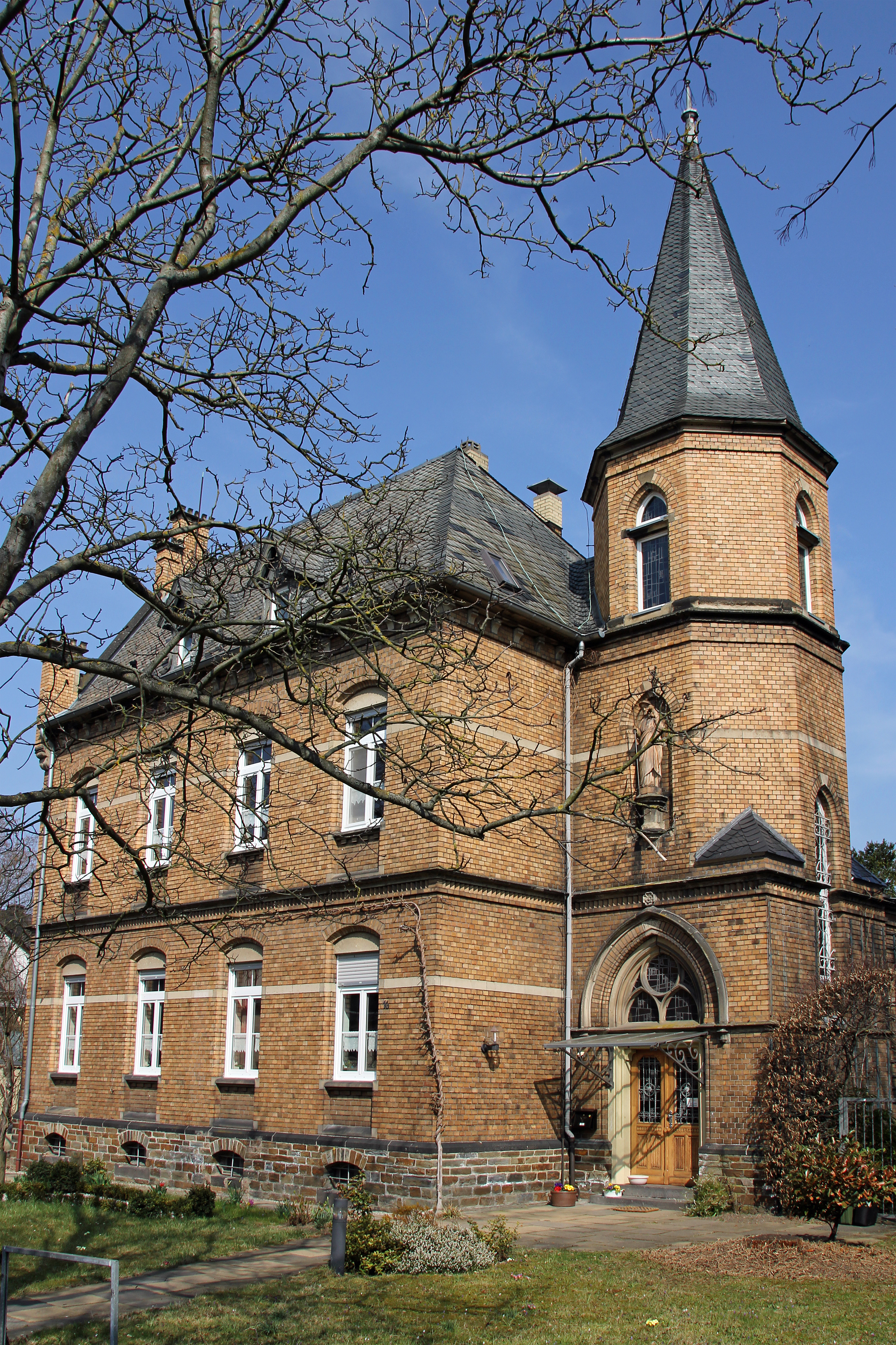 Rectory of St. Laurentius church in Koblenz